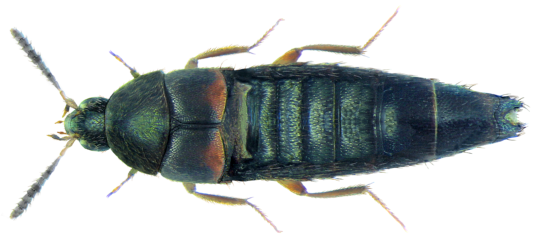 Family: Staphylinidae Size: 7.5 to 4.2 mm Location: Malaysia, Langkawi, Berjaya U.Schmidt leg, 14.XI.2009; det. R.Pace, 2011 Photo: U.Schmidt, 2012